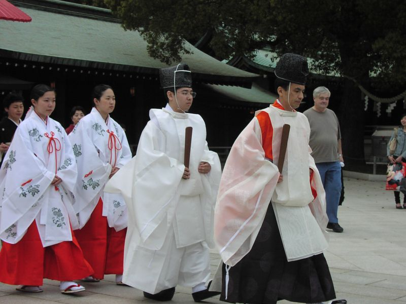 Shinto wedding at the Meiji shrine